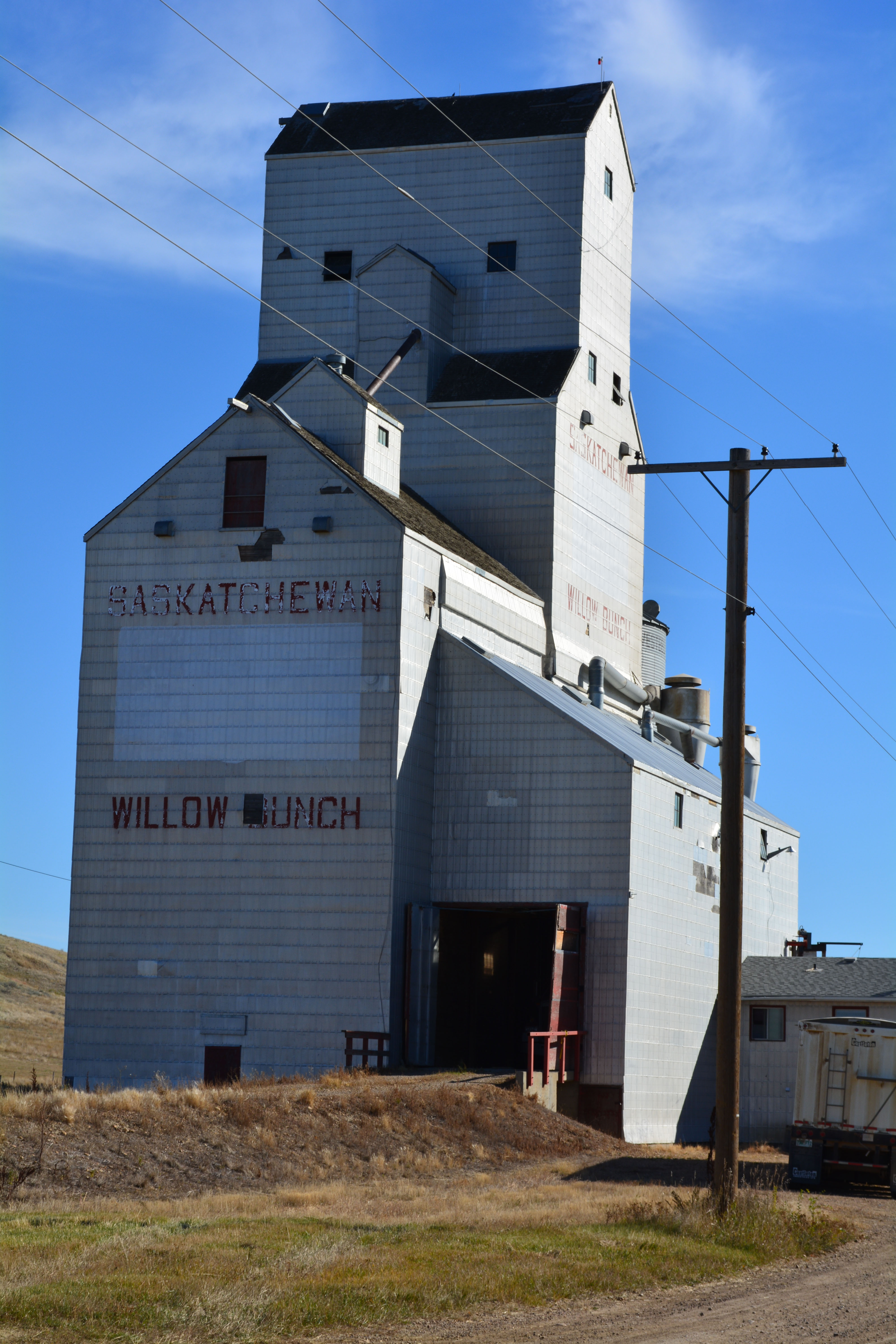 The current Willow Bunch grain elevator. Owned and operated by Prairie Giant Processing Inc.